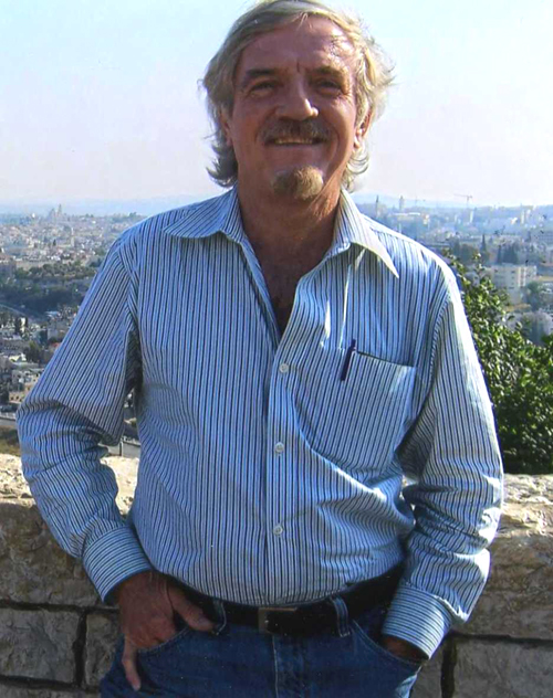 Photograph of Dr. Abraham D. Lavender in Jerusalem, May 2006, by author.